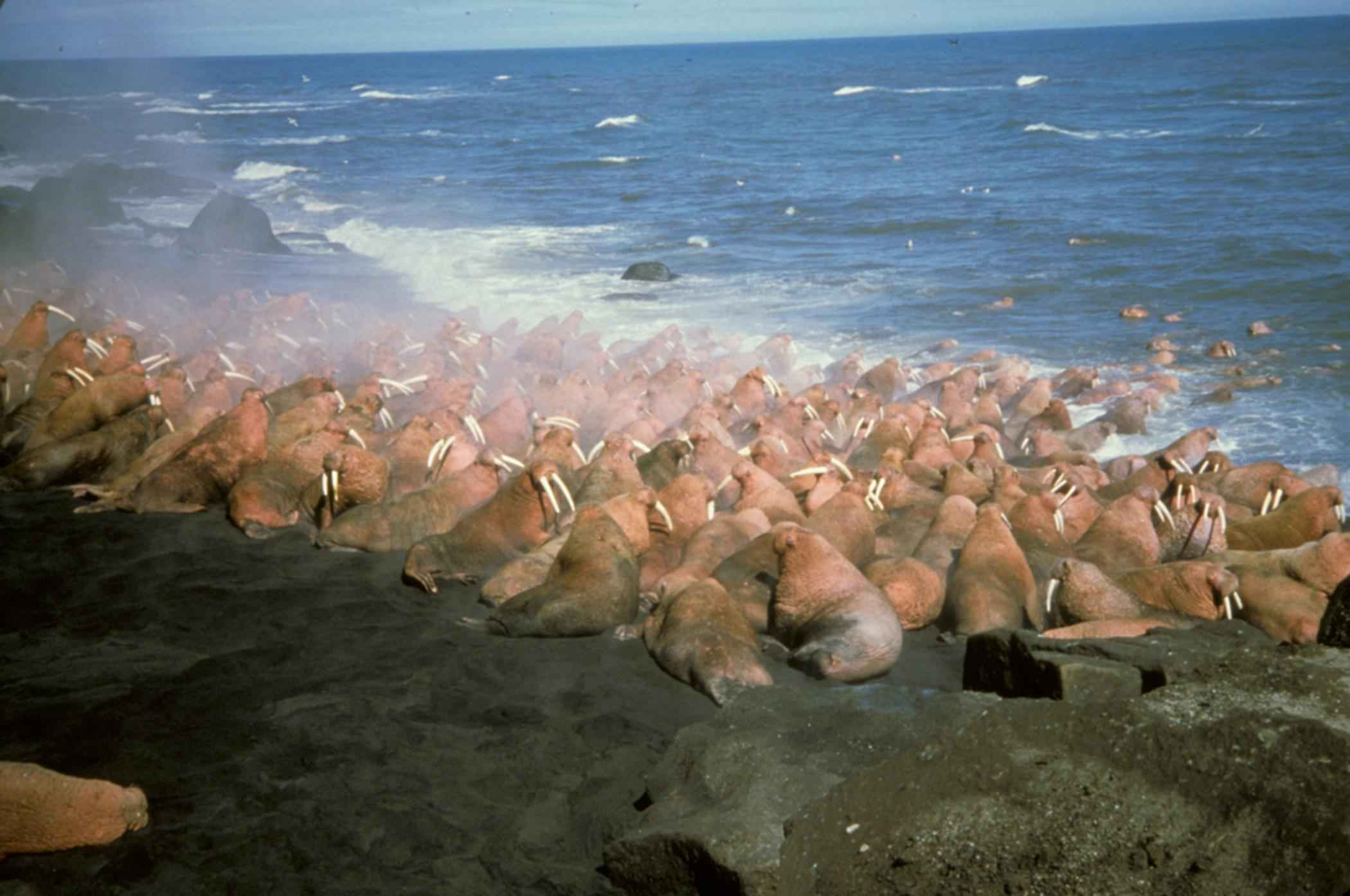 Image title: Walruses large marine mammals on the beach and in water Image from Public domain images website